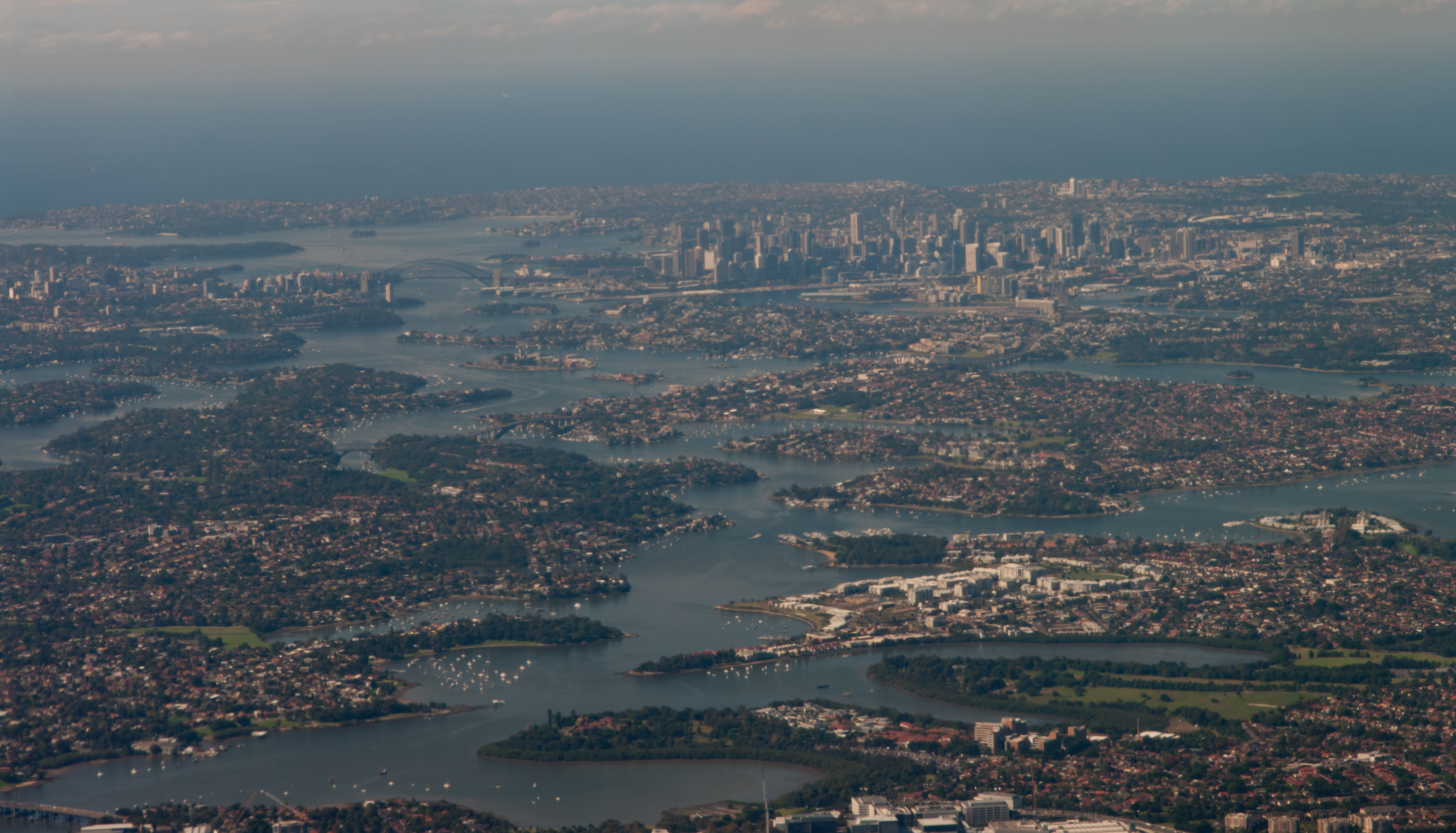 Aerial view across Sydney looking east